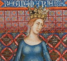 Maria of Hungary (1257–1323)